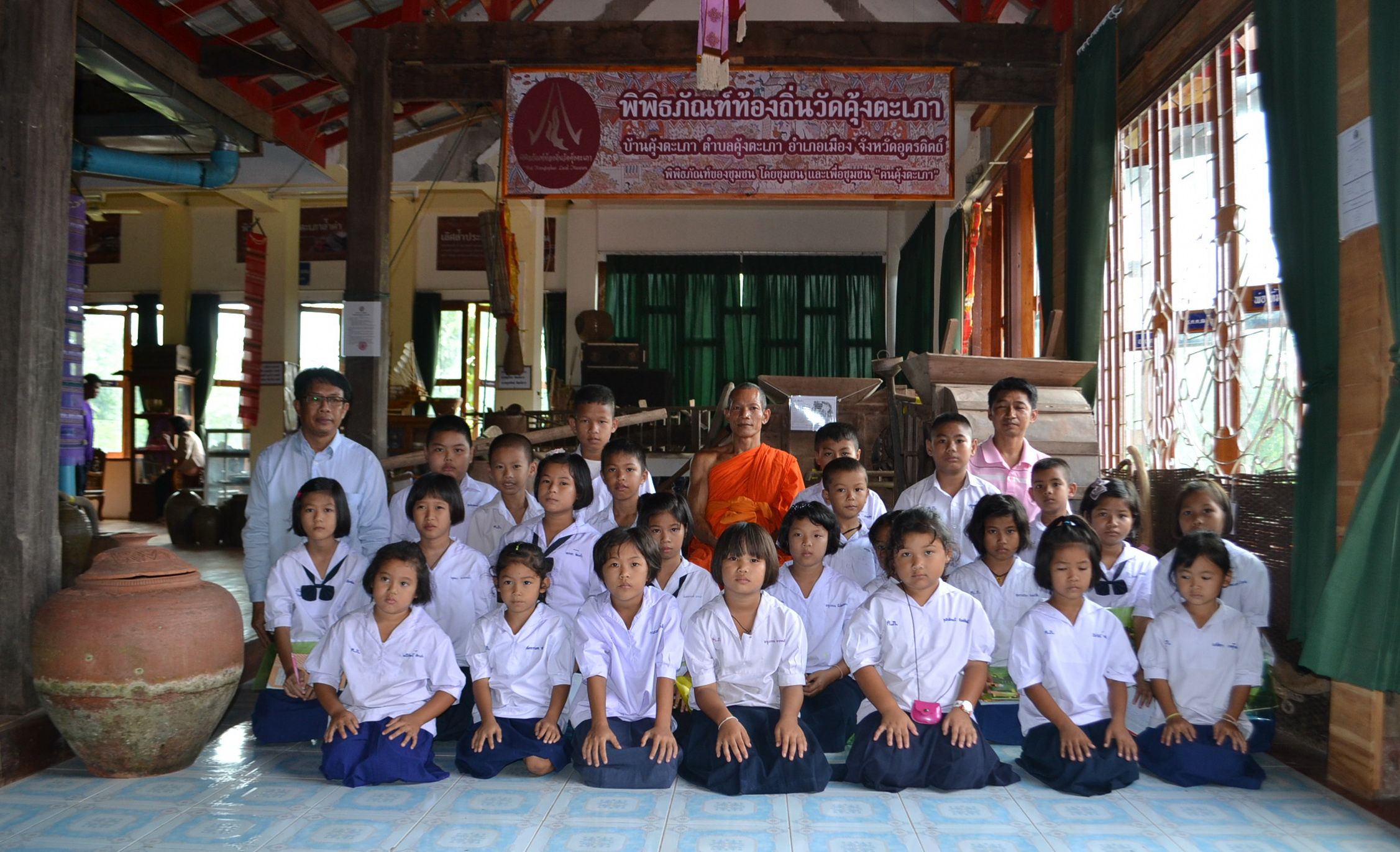 Wat Kungtapao Local Museum. at Wat Khung Taphao, Ban Khung Taphao, Khung Taphao subdistrict, Mueang Uttaradit, Uttaradit Province, Thailand.) on December 2, 2012.